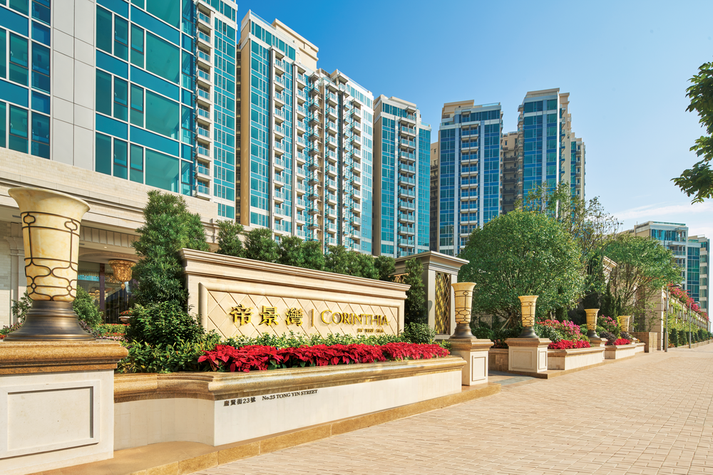 Corinthia by the Sea 帝景灣